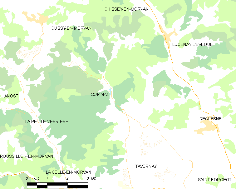 Map of French municipality